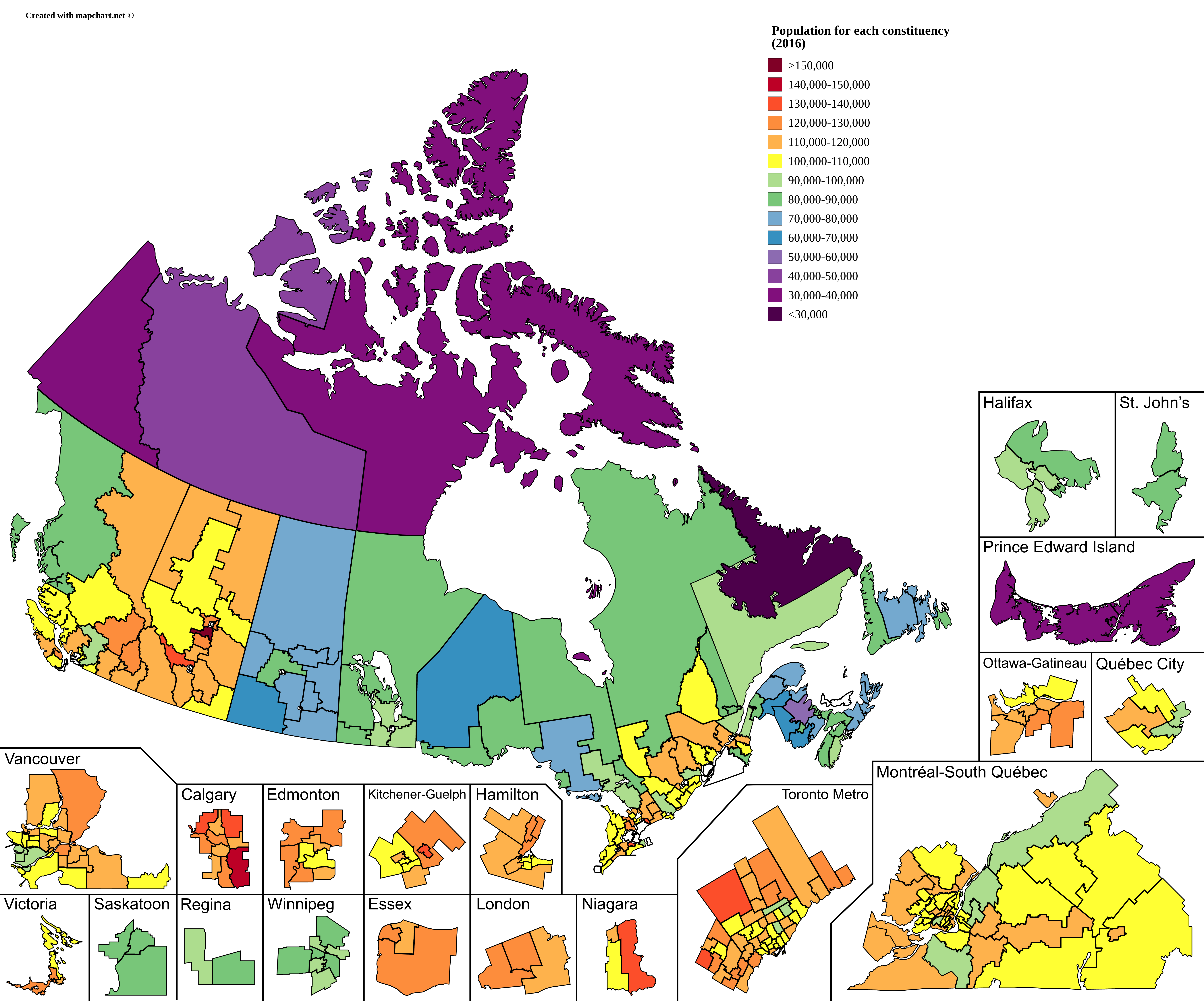 This is a map of the population of each Canadian riding, or constituency